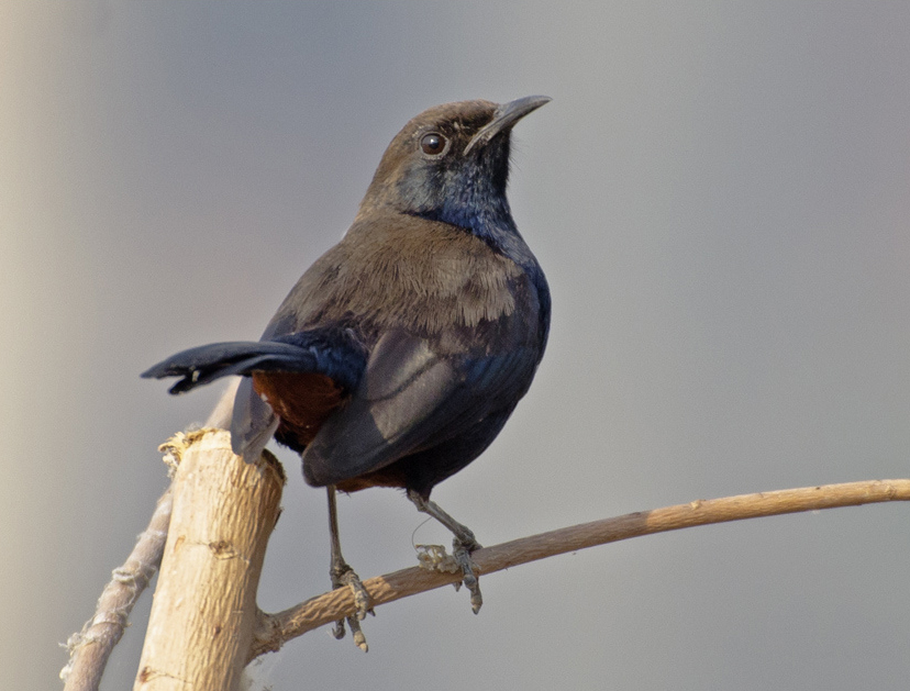 Indian Robin Saxicoloides fulicatus male; Maharashtra, India.